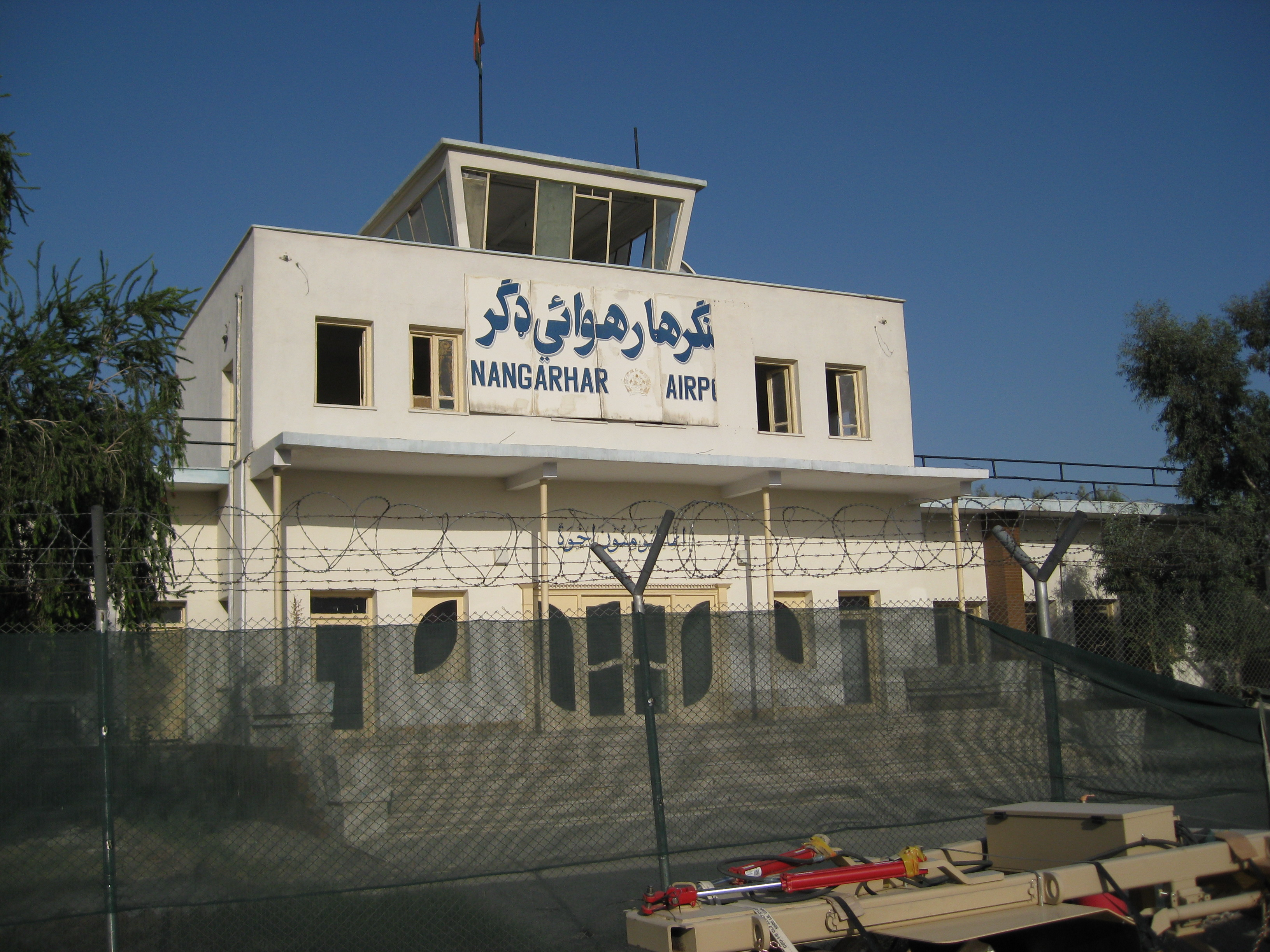 Welcome to the Nangarhar Airport!